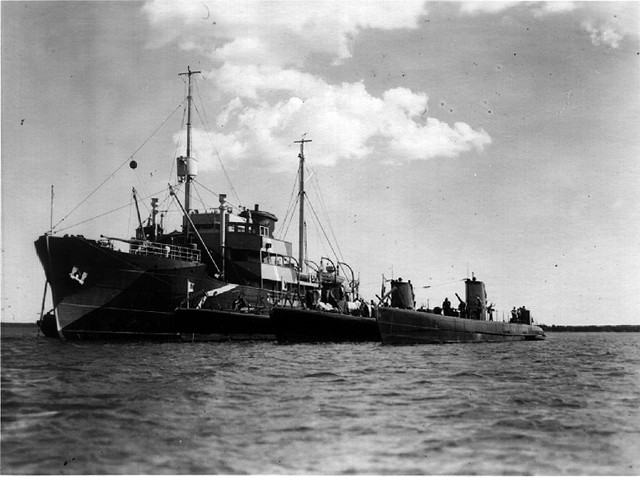 Finnish icebreaker and submarine tender Sisu (built 1939) with Finnish submarines either before or during the Second World War.